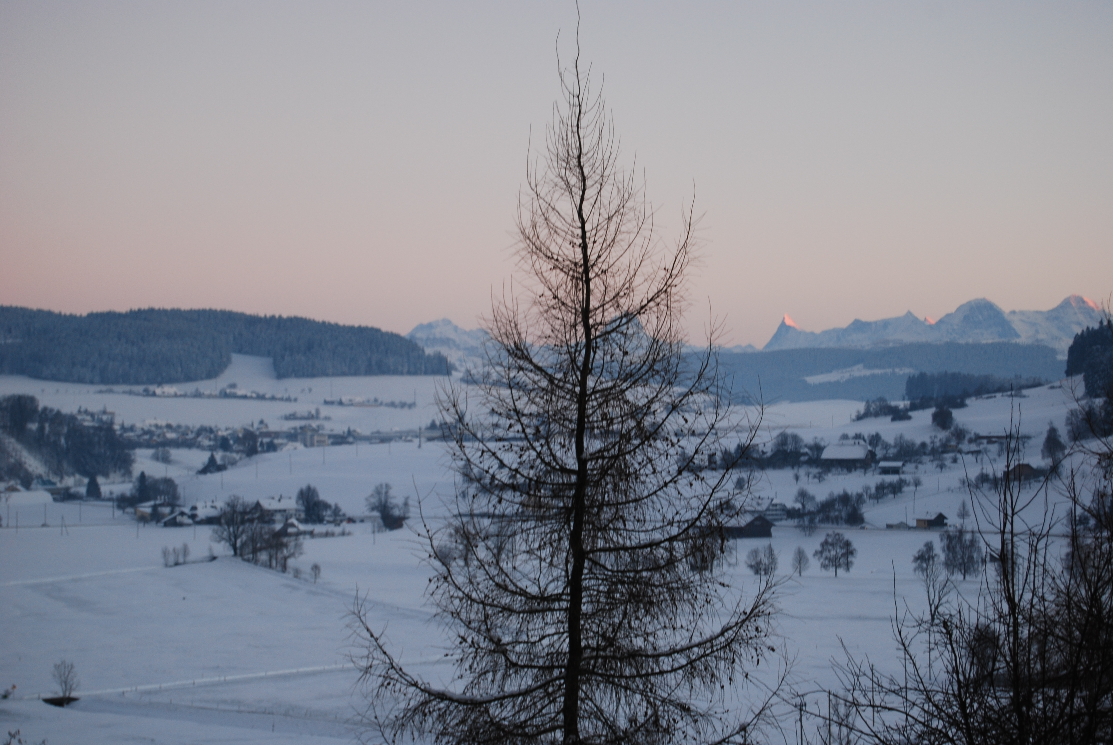 Winter landscype, view from the Hotel Rüttihubelbad to the Walkringer Moos, Biglen and the Bernese Alps, canton of Bern, Switzerland